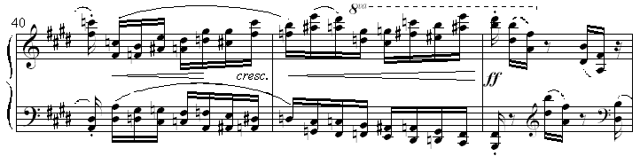 Excerpt from Chopin's Etude Op.10 No.3 (Another section)